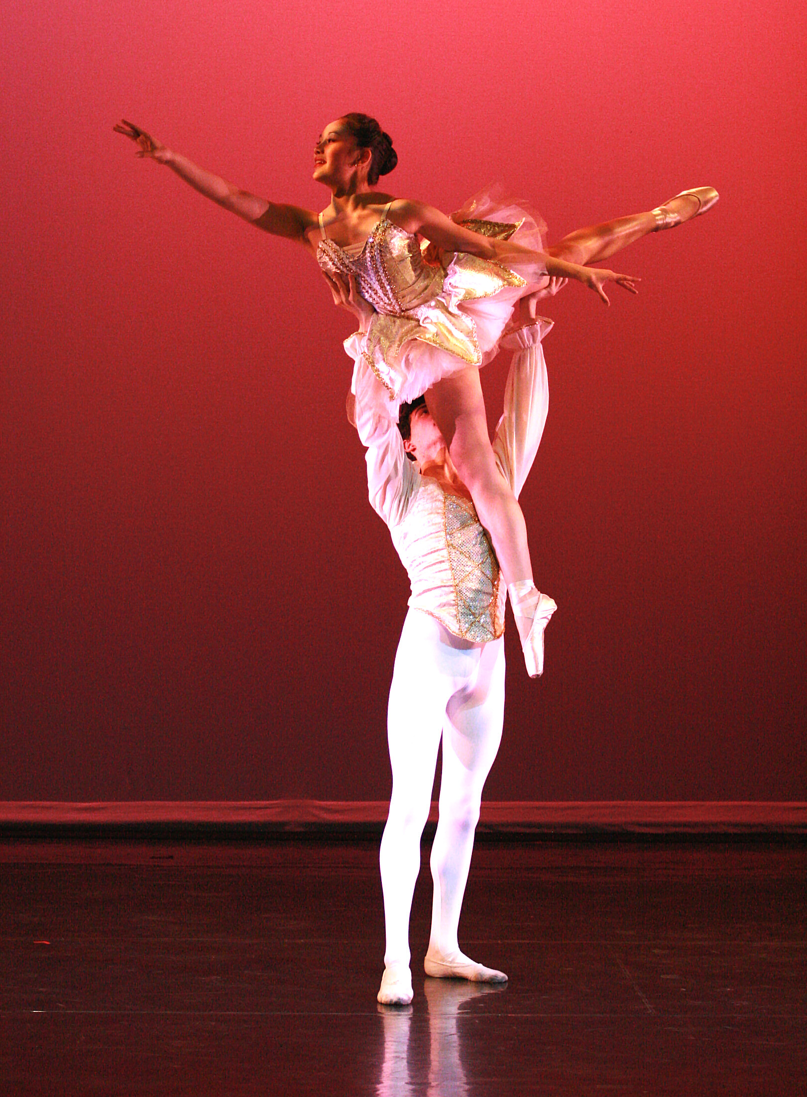 Paquita pas de deux, performed by Daria L and Ross at a NW Fusion Dance Company concert at the World Trade Center Theater in Portland, Oregon.